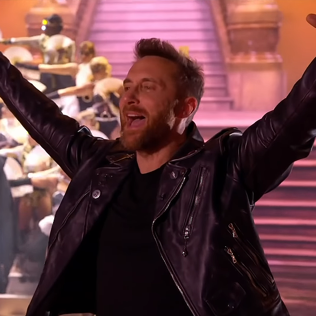 David Guetta performing live with Nicki Minaj and Jason Derulo at MTV EMA 2018